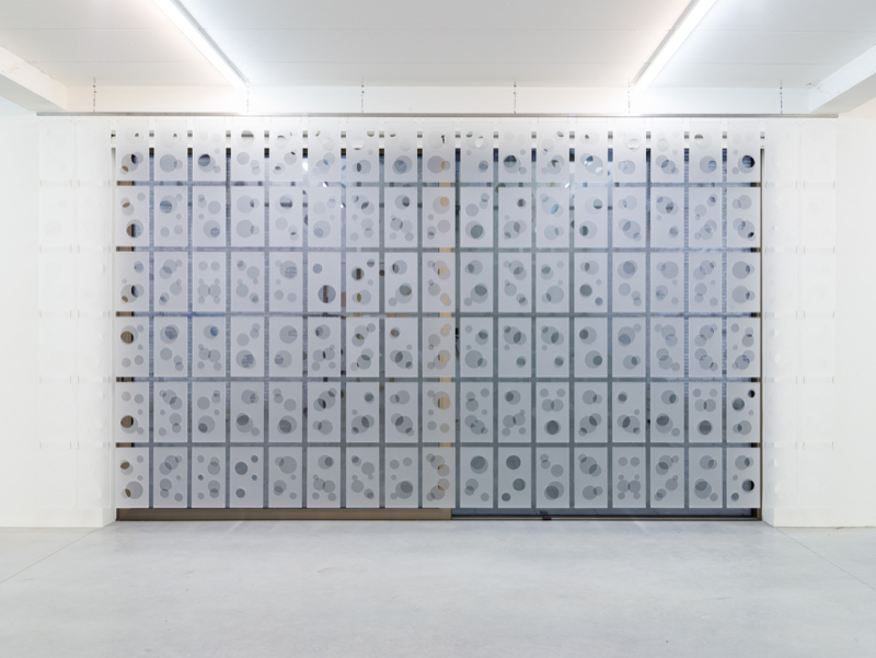 Carla Arocha and Stéphane Schraenen, Blind, 2017. Acrylic, Stainless steel.